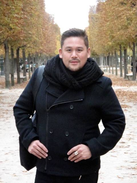 Filipino Fashion Designer Rajo Laurel